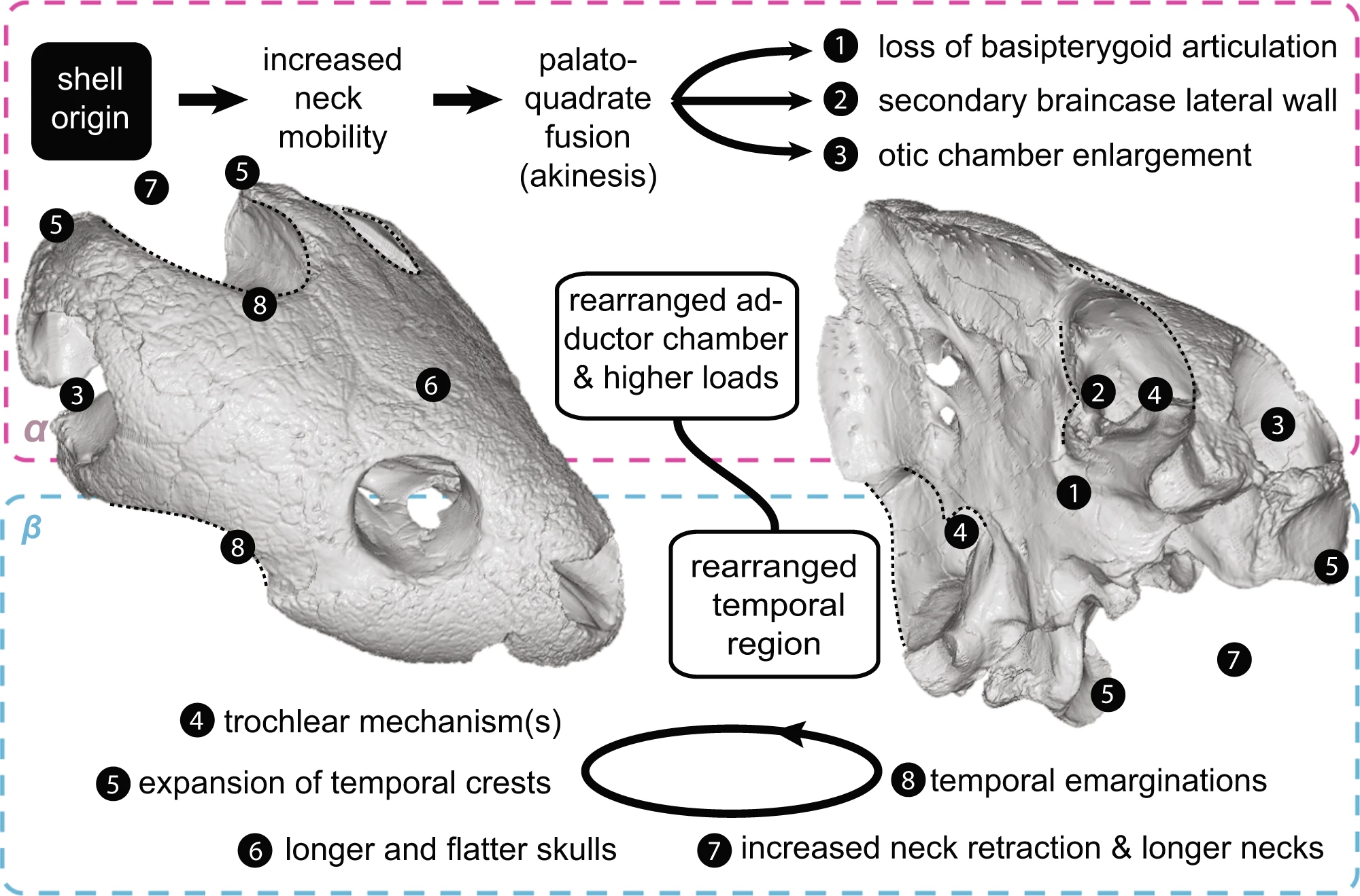 Hypothesis of progressive correlation between neck and head during turtle evolution. The origin of the turtle shell initiates the first selective regime (α) in which muscle rearrangements enable more flexible necks that overcome the lack of mobility of the shelled body, but also exert distinct compression and tension loads on the skull. This is compensated by an increasing stiffness (through palatoquadrate fusion, closure of basipterygoid region (1), secondary braincase lateral wall (2) formation). The new, stiffened skull architecture can withstand higher loads at the same time allowing material reduction in the temporal region, opening the path to a second selective regime (β). Longer and flatter skulls (6) evolve, together with posterior expansion of temporal crests (5) and the enlarged otic chamber (3), both features reducing available volume inside the adductor chamber and triggering the appearance of a trochlear mechanism (4). Broader insertion sites for neck musculature offered by expanded temporal crests (5) support a new round of neck modifications, resulting in longer necks and modern types of neck retraction (7). Temporal emarginations (8) evolve in response to new forces generated by more powerful neck musculature. Model of †Eubaena cephalica as in Supplementary Fig. 9.